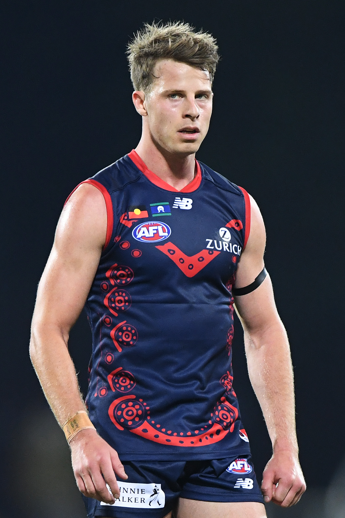 Mitch Hannan of Melbourne during the 2019 AFL round 11 match between Melbourne and Adelaide at TIO Stadium on Saturday, 1 June 2019 in Darwin, Northern Territory.